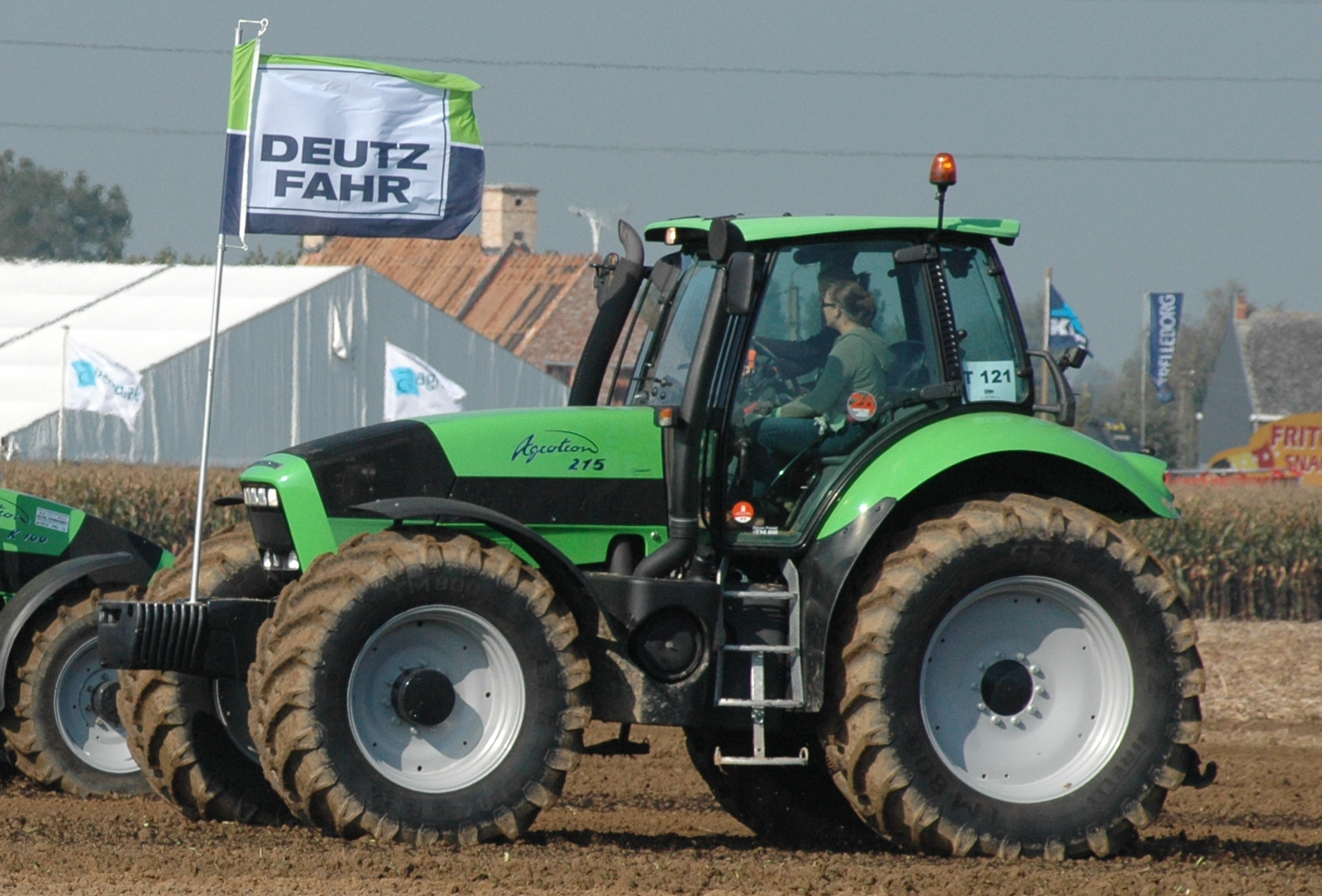 Deutz-Fahr Agrotron 215 with Deutz-Fahr flag at Werktuigendagen 2007